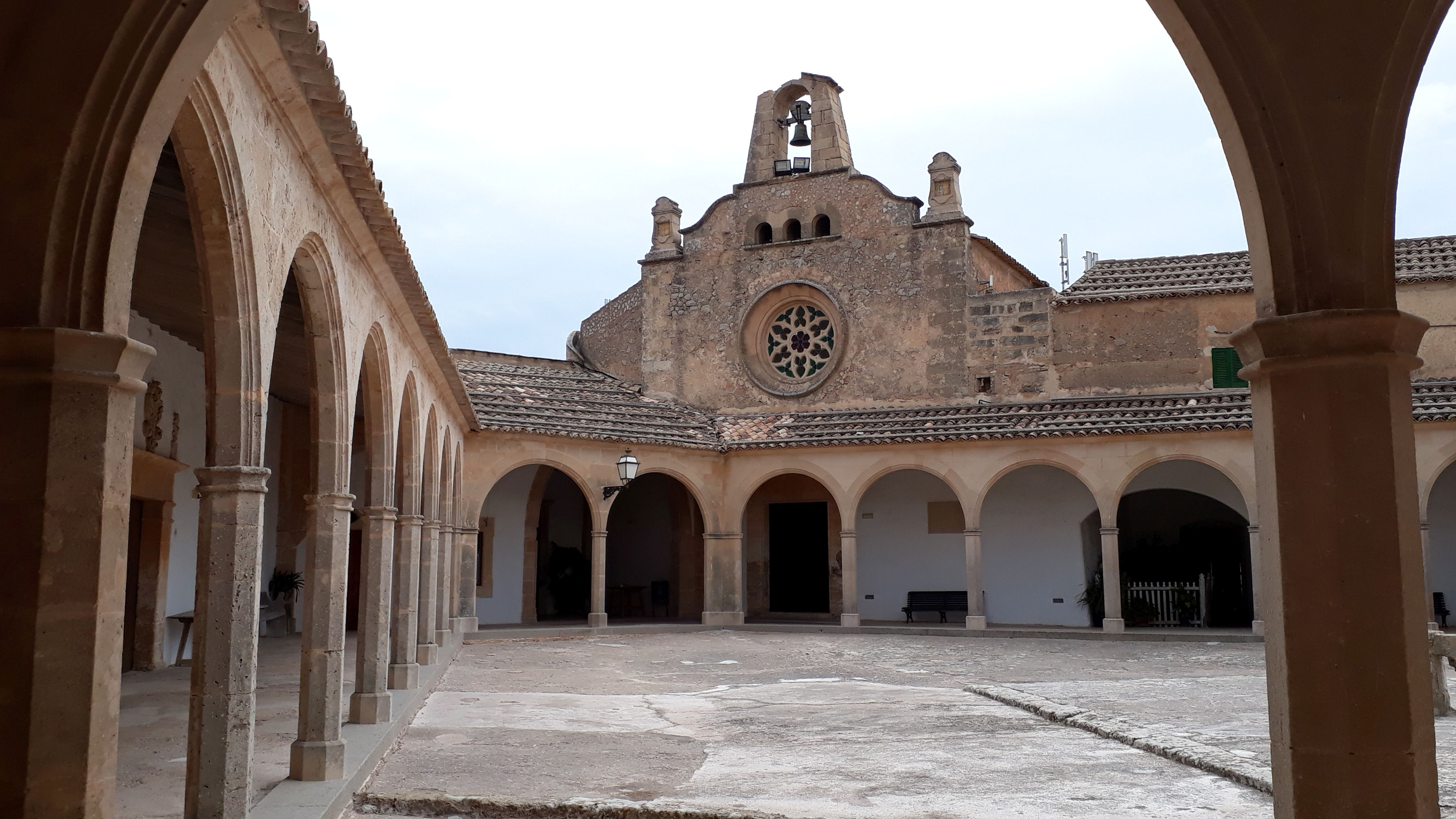 Santuari de Monti-Sión (former monastery and school) near Porreres on Mallorca.